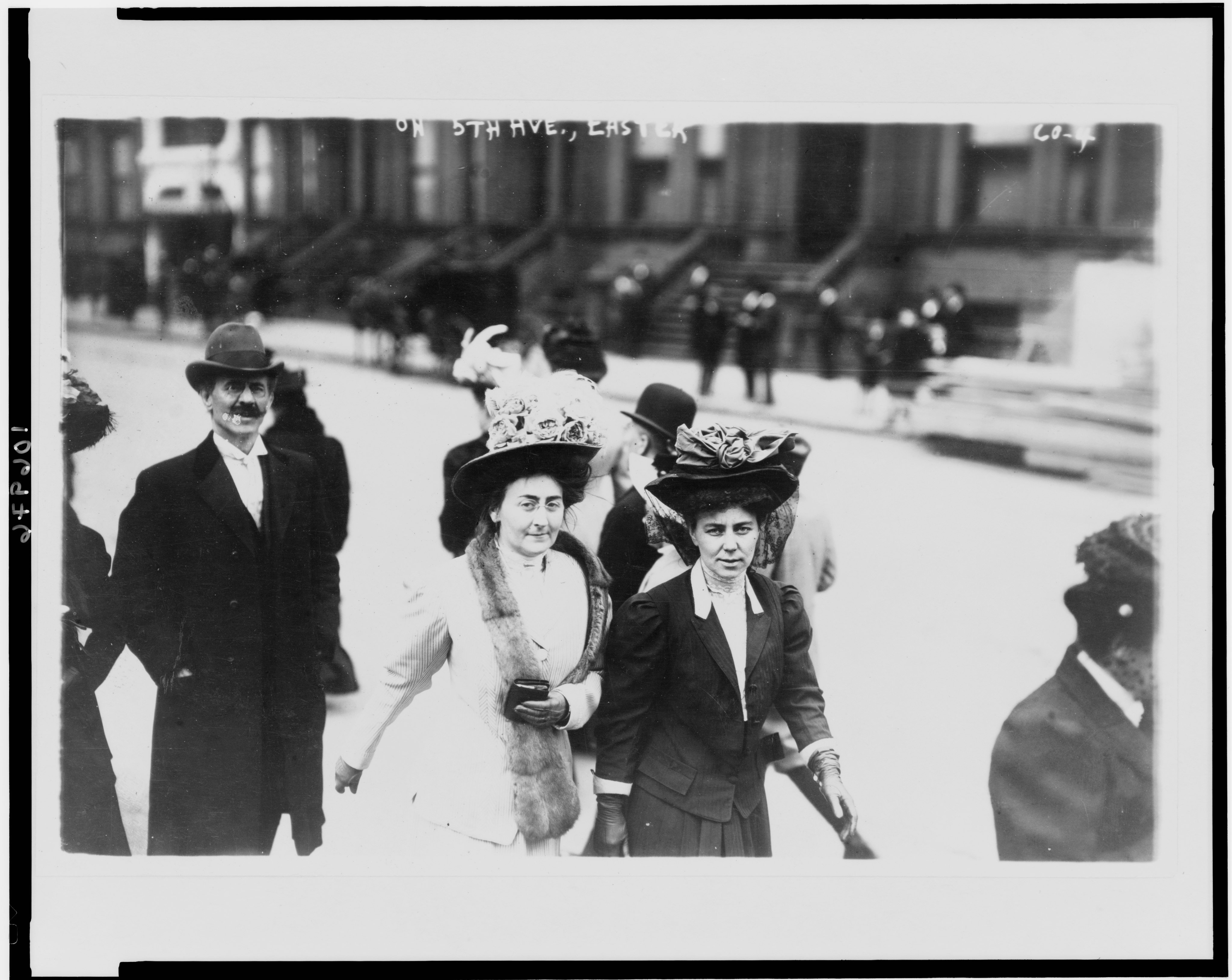 Title: On 5th Avenue, Easter Abstract/medium: 1 photographic print.